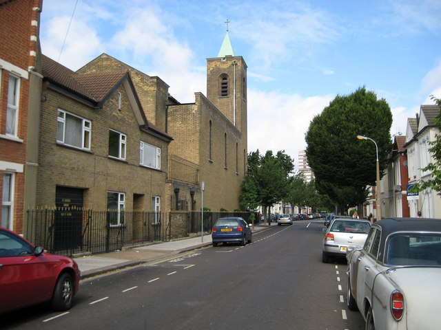 Fulham: Catholic Church of Our Lady of Perpetual Help This is the view down Tynemouth Street towards the Church, although the main entrance is past the tower and around to the left in Stephendale Road. The Church was built in 1922 to the designs of the catholic Priest Fr Benedict Williamson, and was funded by a lady in memory of her son who was killed in 1914 during the First World War. Some of the internal architecture is of an Egyptian style reflecting the contemporary interest in all things Egyptian around that time, when the Tomb of Tutankhamun had just been discovered by Howard Carter.